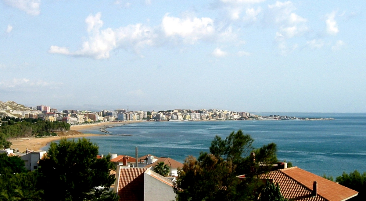 Crotone seaward side seen from south-west. Crotone is the capital of the province with the same name in Calabria in Italy.